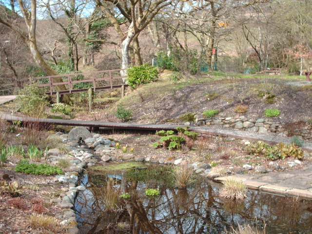 Colintraive Community Garden